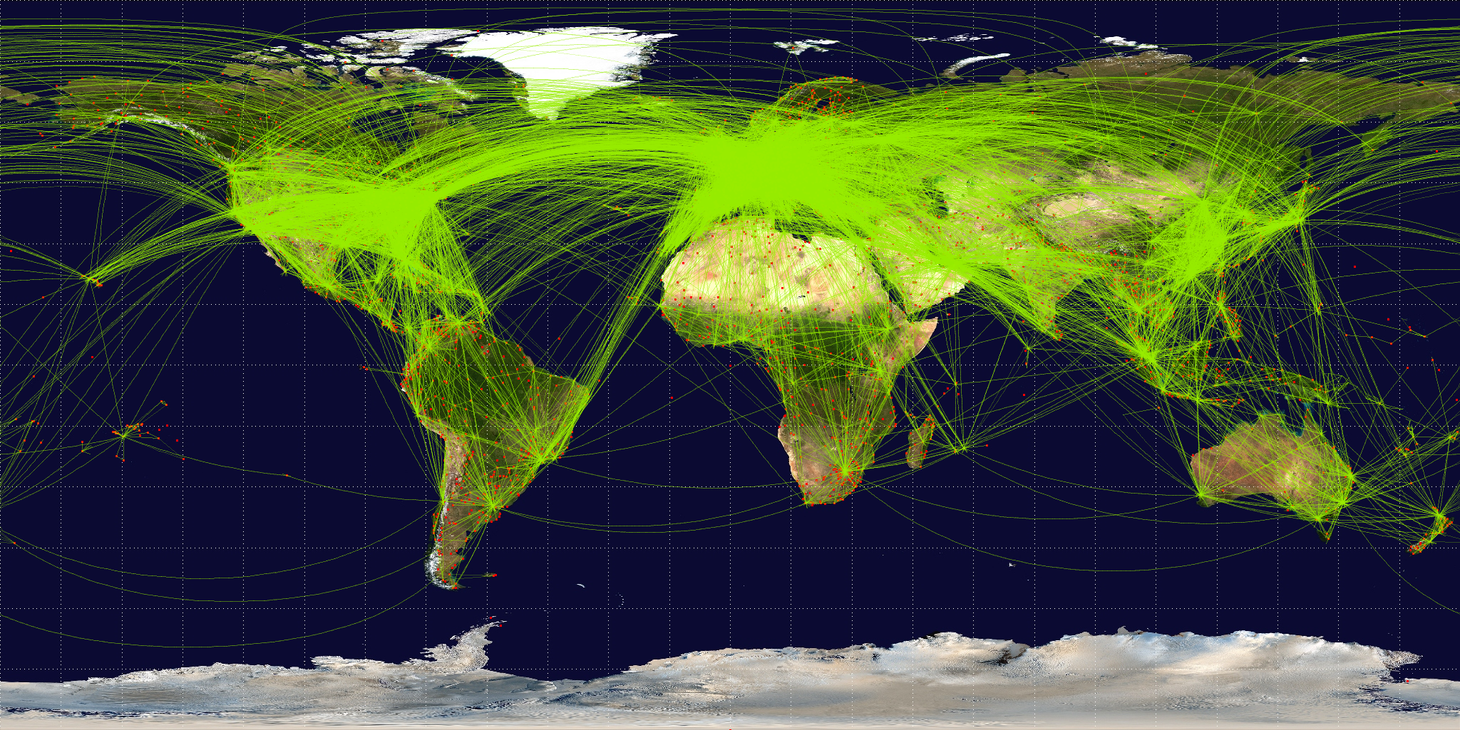 Map of scheduled airline traffic around the world, circa June 2009. Contains 54317 routes, rendered at 25% transparency. Base map is NASA Blue Marble (PD) plus airports from file:World-airport-map-2008.png, route data is from Airline Route Mapper, rendering by OpenFlights (Open Database License). PHP source code for rendering available at the OpenFlights SVN.